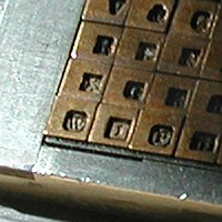 Individual matrices, or mats, part of a font of characters loaded into a matrix-case.